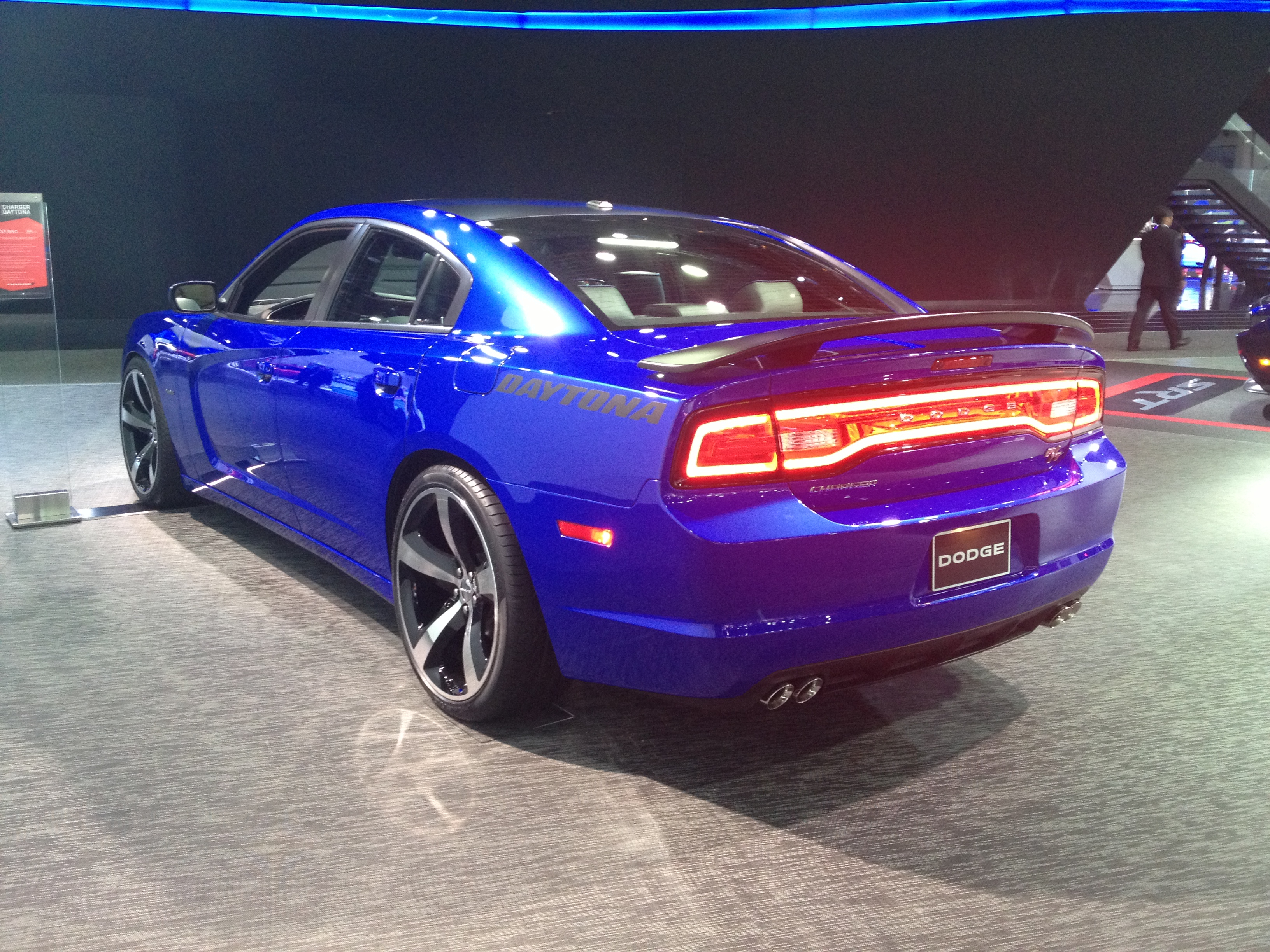 2013 North American International Auto Show Detroit, Michigan